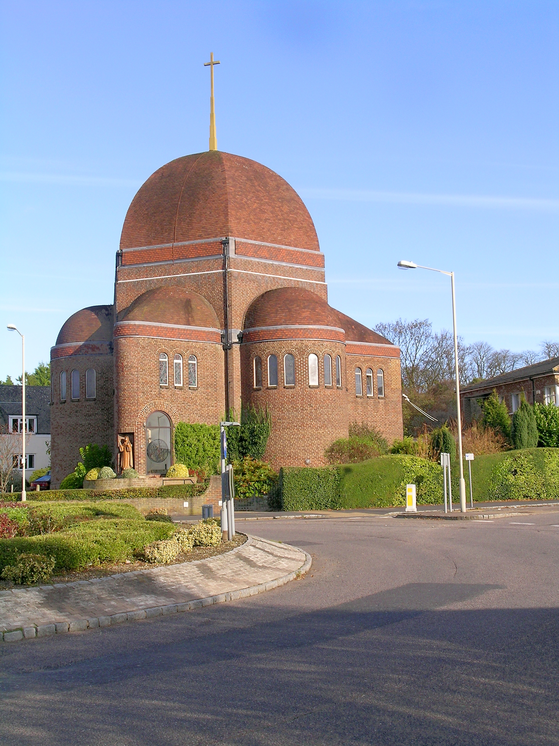 Roman Catholic church of St Thérèse of the Child Jesus, Princes Risborough, Buckinghamshire, England, seen from the west. Designed by Giuseppe Rinvolucri and built in 1937–38.